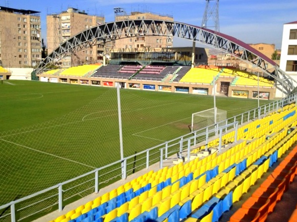 Mika stadium, Yerevan